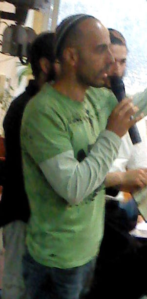 Eli Finish